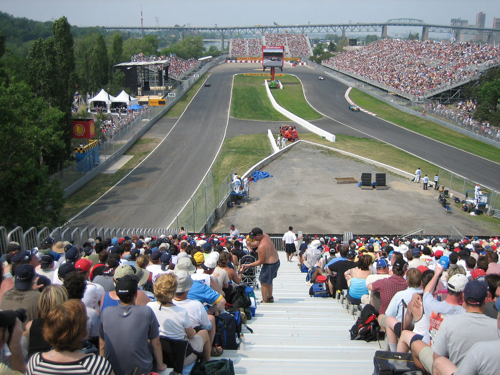 Montreal F1, Grand Prix of Canada